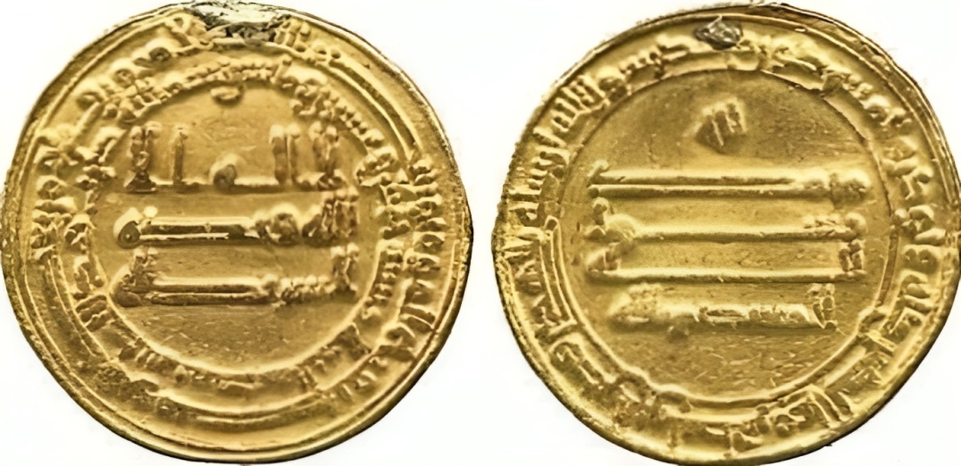 Abbasid Dinar - Al-Mu'tasim-225h